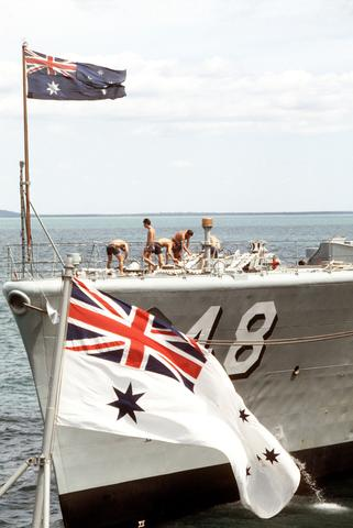 Operation / Series: PITCH BLACK '84. A port bow view of the Australian frigate HMAS STUART (D 48) framed by the Australian flag. The ship is operating with the US and New Zealand Navies during Exercise PITCH BLACK '84. Location: Darwin, Northern Territory, Australia.